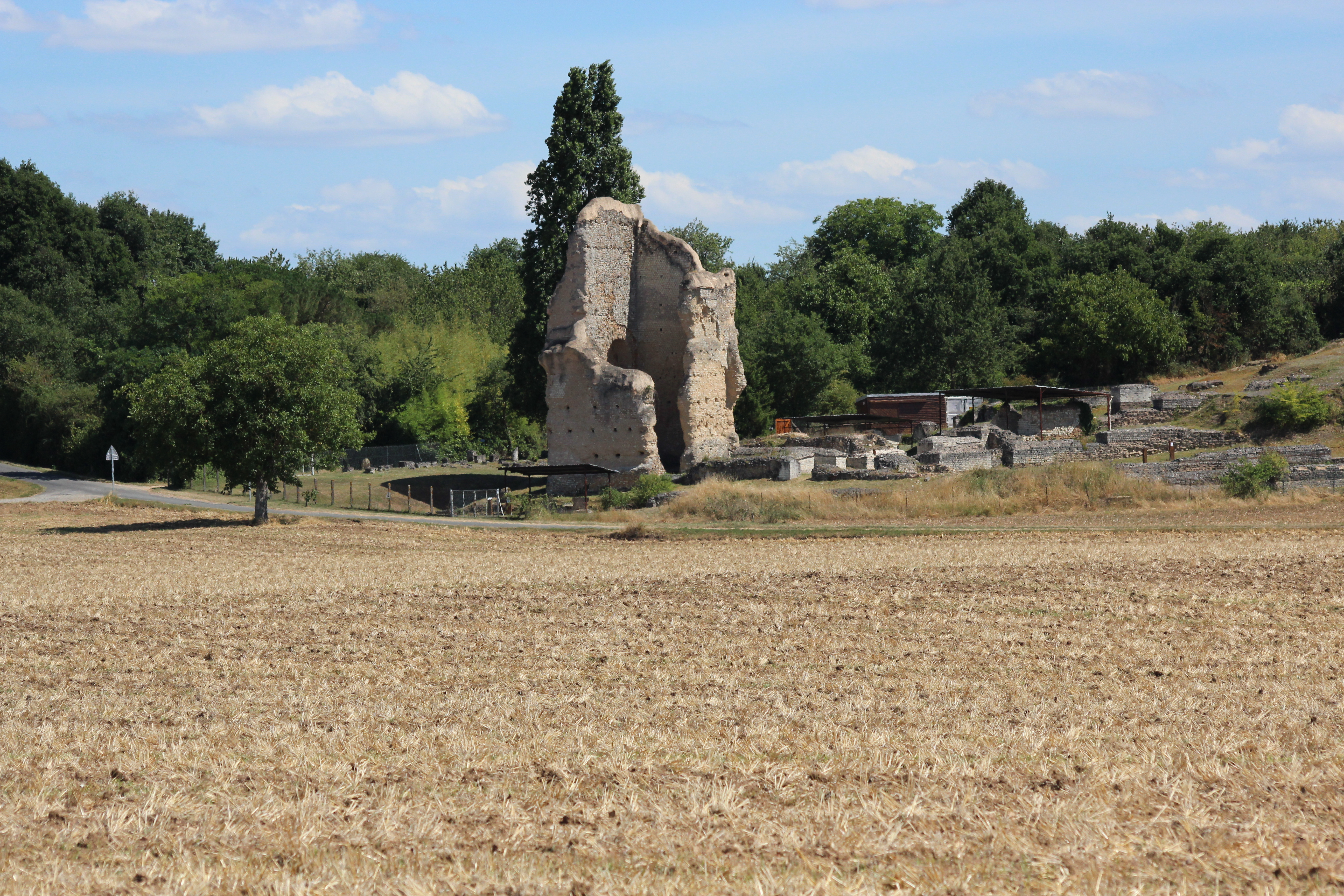 Gallo-Roman theater of Naintré, France. Object location46° 45′ 41.58″ N, 0° 30′ 44.81″ E This building is en partie classé, en partie inscrit au titre des Monuments Historiques. .